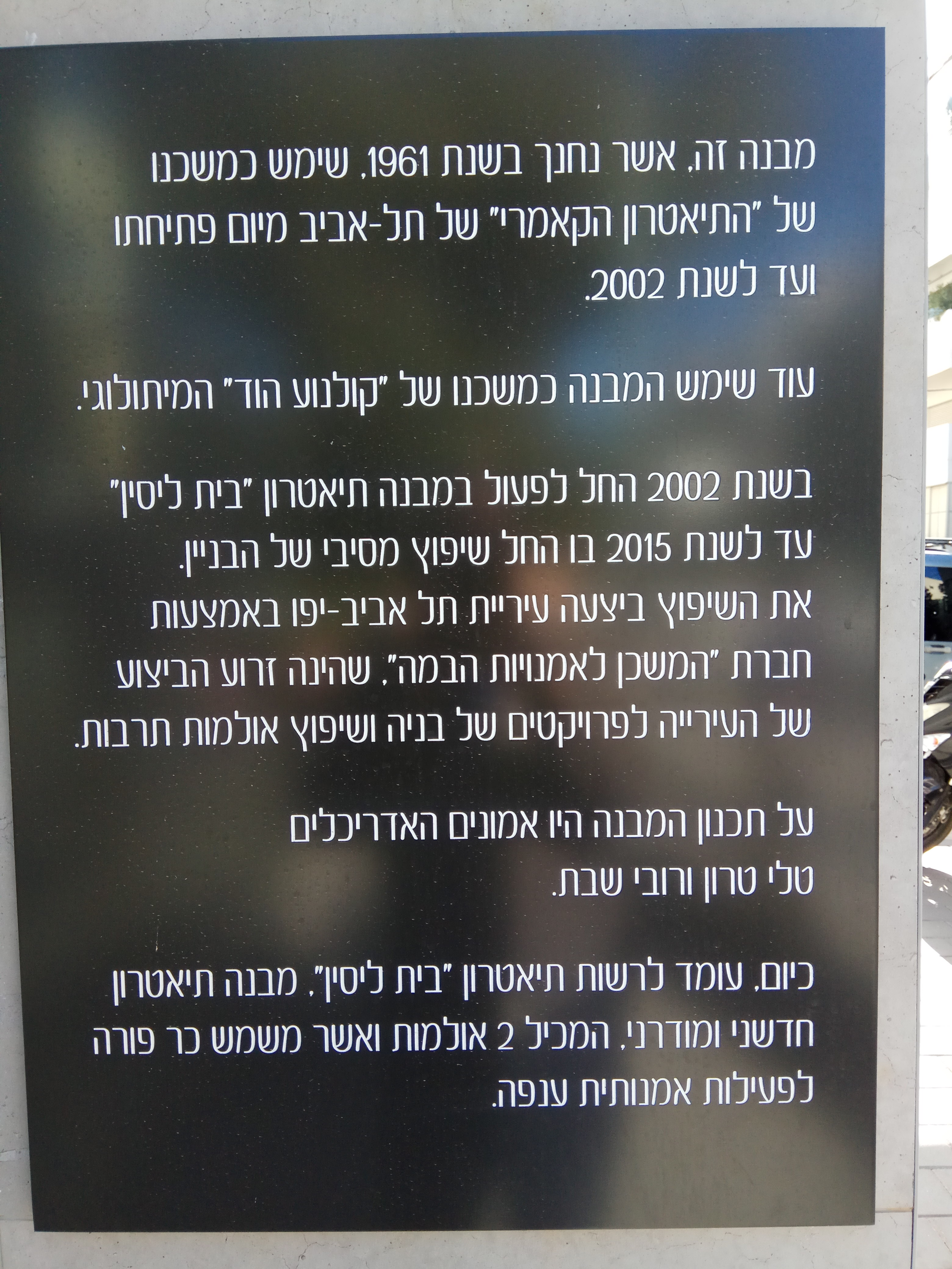 Beit Lessin